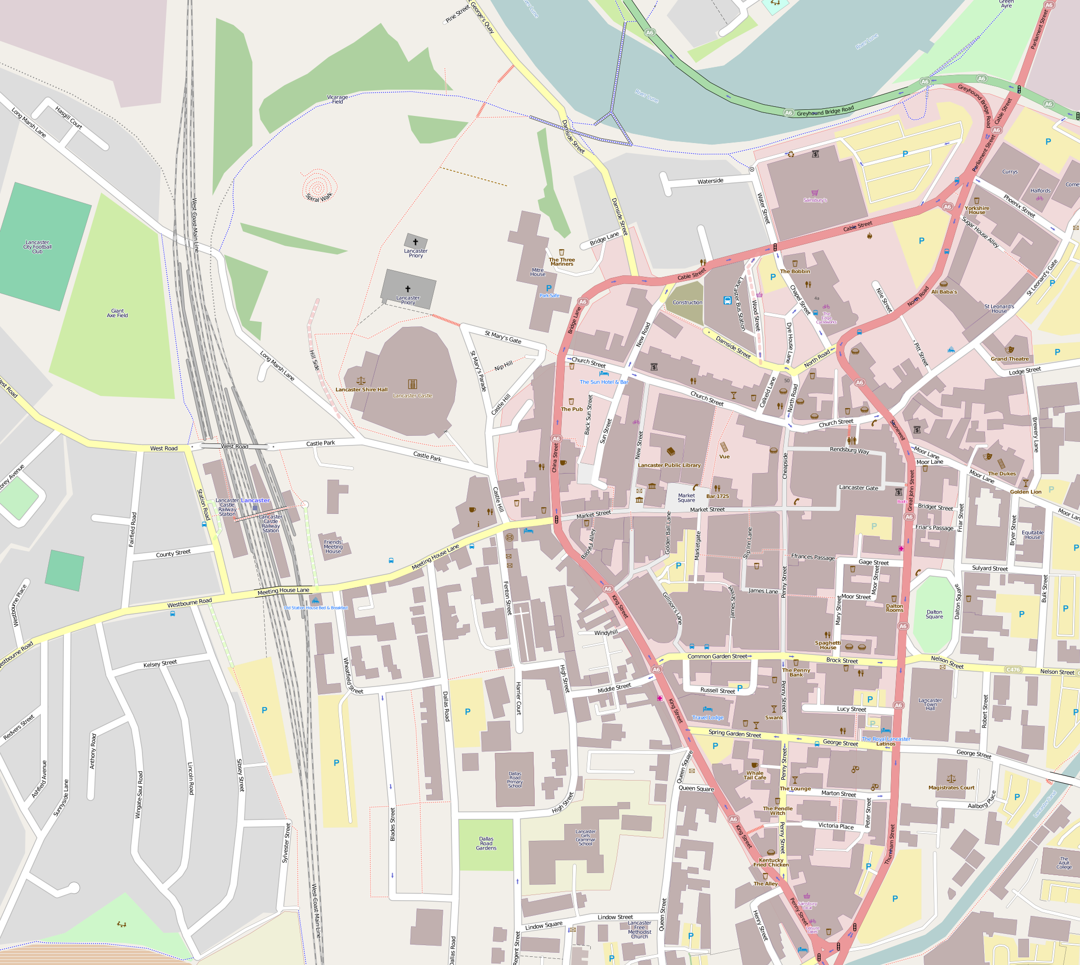 Map of Central Lancaster Geographic limits: N: 54.05318° S: 54.04481° W: -2.81151° E: -2.79555°